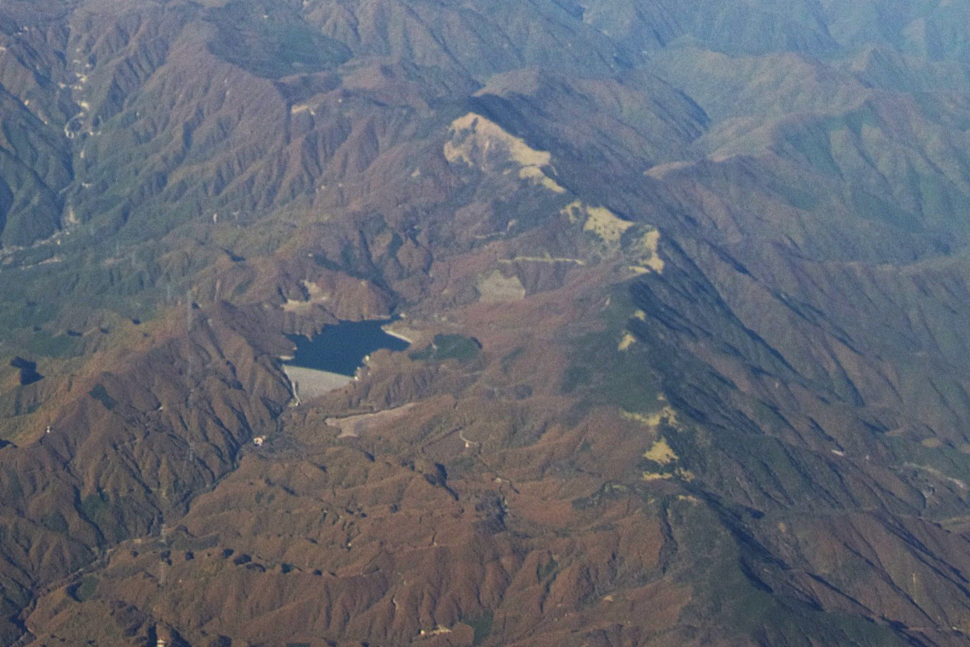 Mount Daibosatsurei & Kamihikawa Dam as seen from the south.